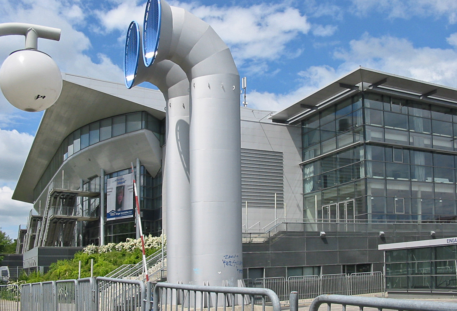 Ostseehalle in Kiel, Germany. View from south-east.